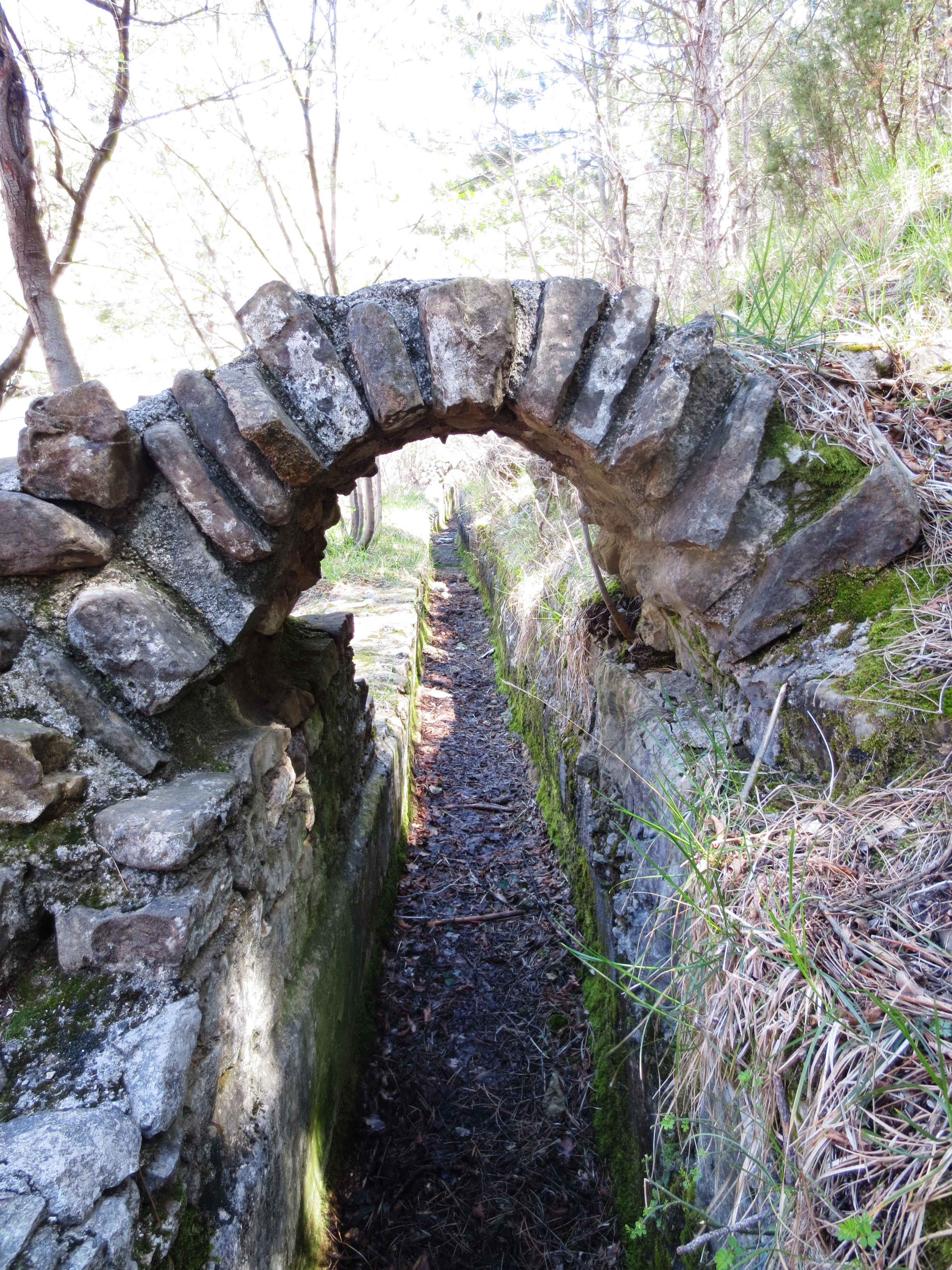 Roman aquaduct in Val Rosandra / Dolina Glinščice.